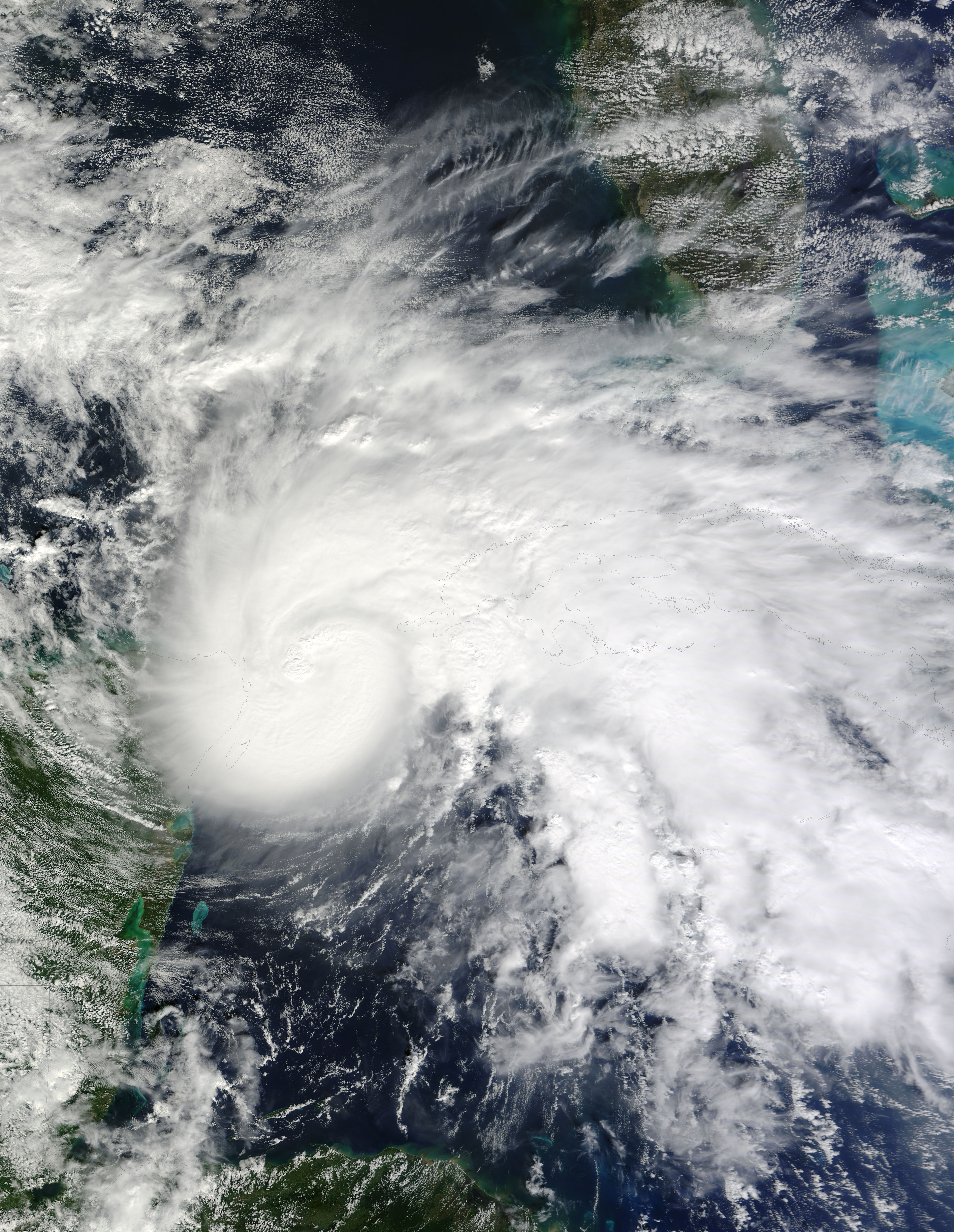 Category 2 Hurricane Ida crossing into the Gulf of Mexico through the Yucatan Channel on November 8, 2009